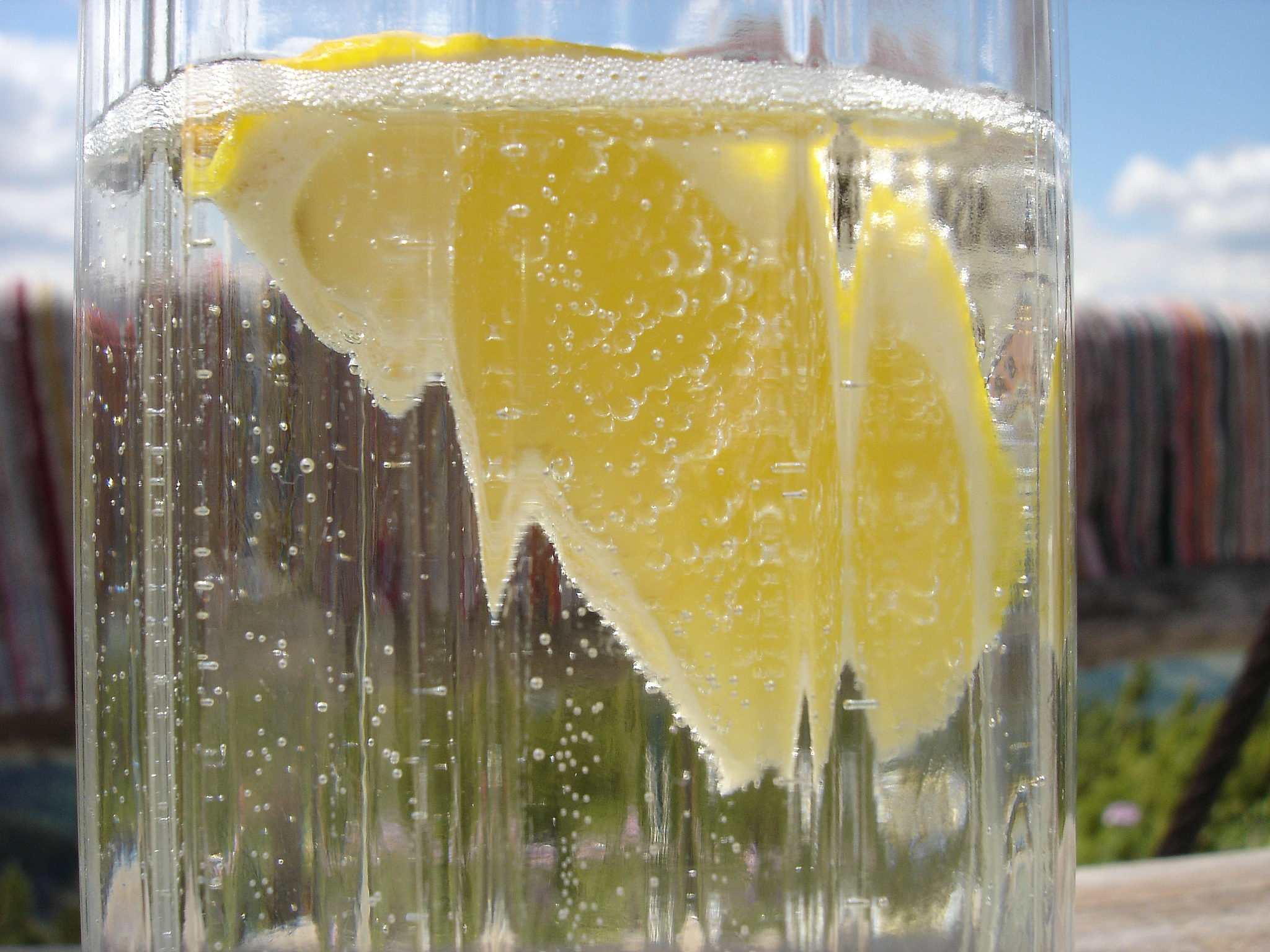 Spritzer in Austria.